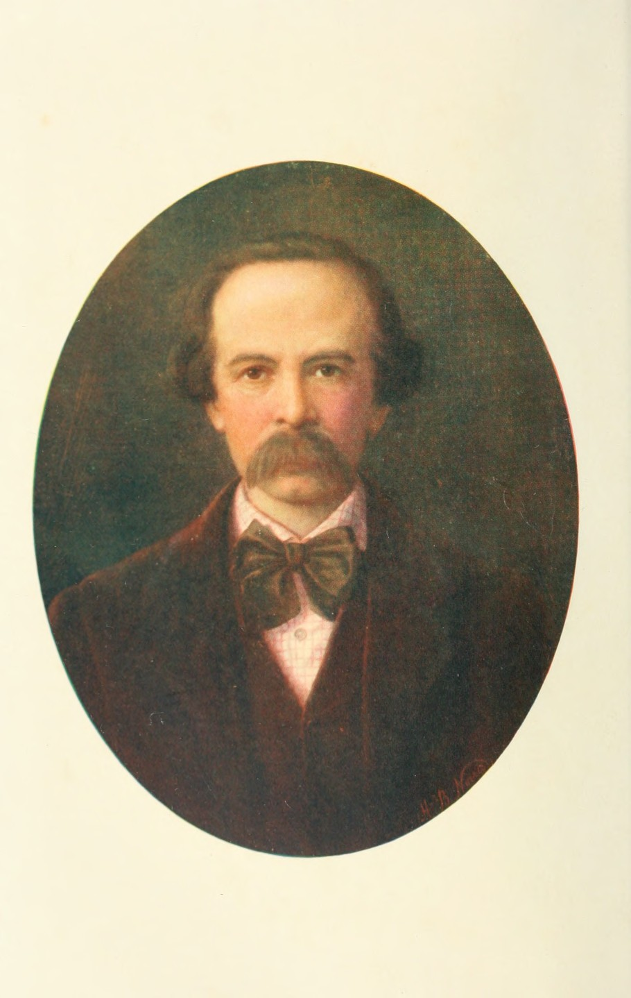 Painting of Theodore Watts-Dunton (1902)